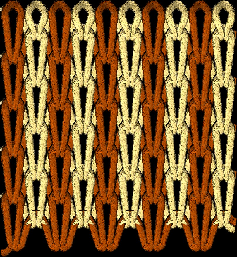 حسام هطلاني